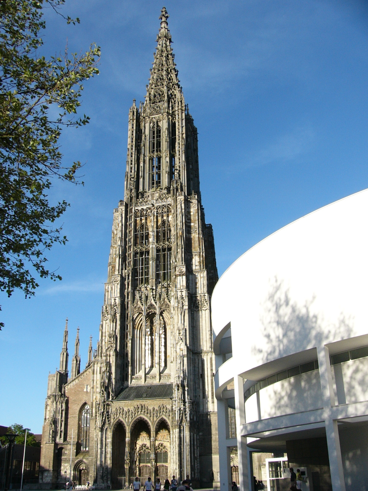 Photo of Ulm Münster; on the right is the city hall disigned by Richard Meier.